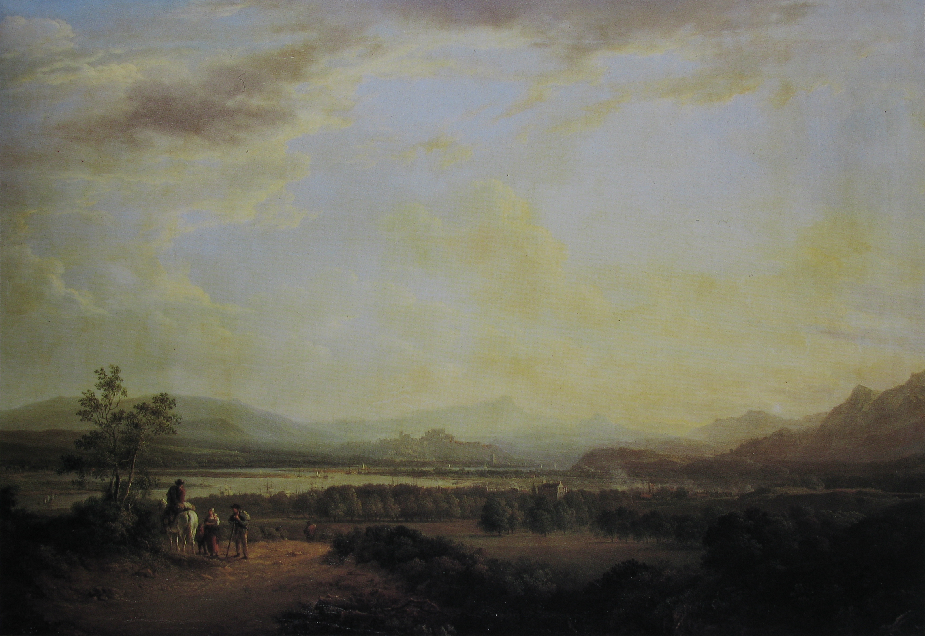 A View of the Town of Stirling on the River Forth; Oil on Canvas, 81 x 155 cm